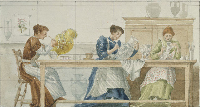 From V&A: This is the eighth drawing from a series of twelve watercolours which show the manufacturing processes of Doulton's Lambeth pottery works, made by William Rowe about 1893. Above the drawing, the painter indicated, in pencil, that the process represented was that of 'painting vases'. In this drawing, three female painters are sitting in the studio painting vases. The Barlow sisters - Hannah and red-haired Florence - have been identified at work in this process. Unlike male workers doing skilled or heavy work, the female workers' role in a pottery was to assist male potters or to paint and decorate earthenware. This drawing offers a rare view of the interior of the design studio and gives invaluable information about the firm's practice of design and decoration. This drawing, along with other drawings in the series, provide a unique insight into the workings of the Lambeth factory....